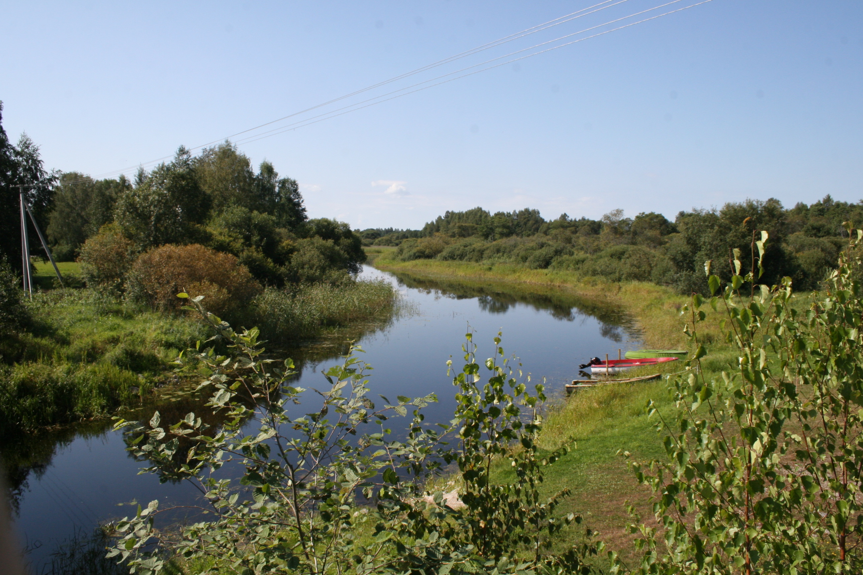 Tänassilma River, located in Viljandi County, Estonia.